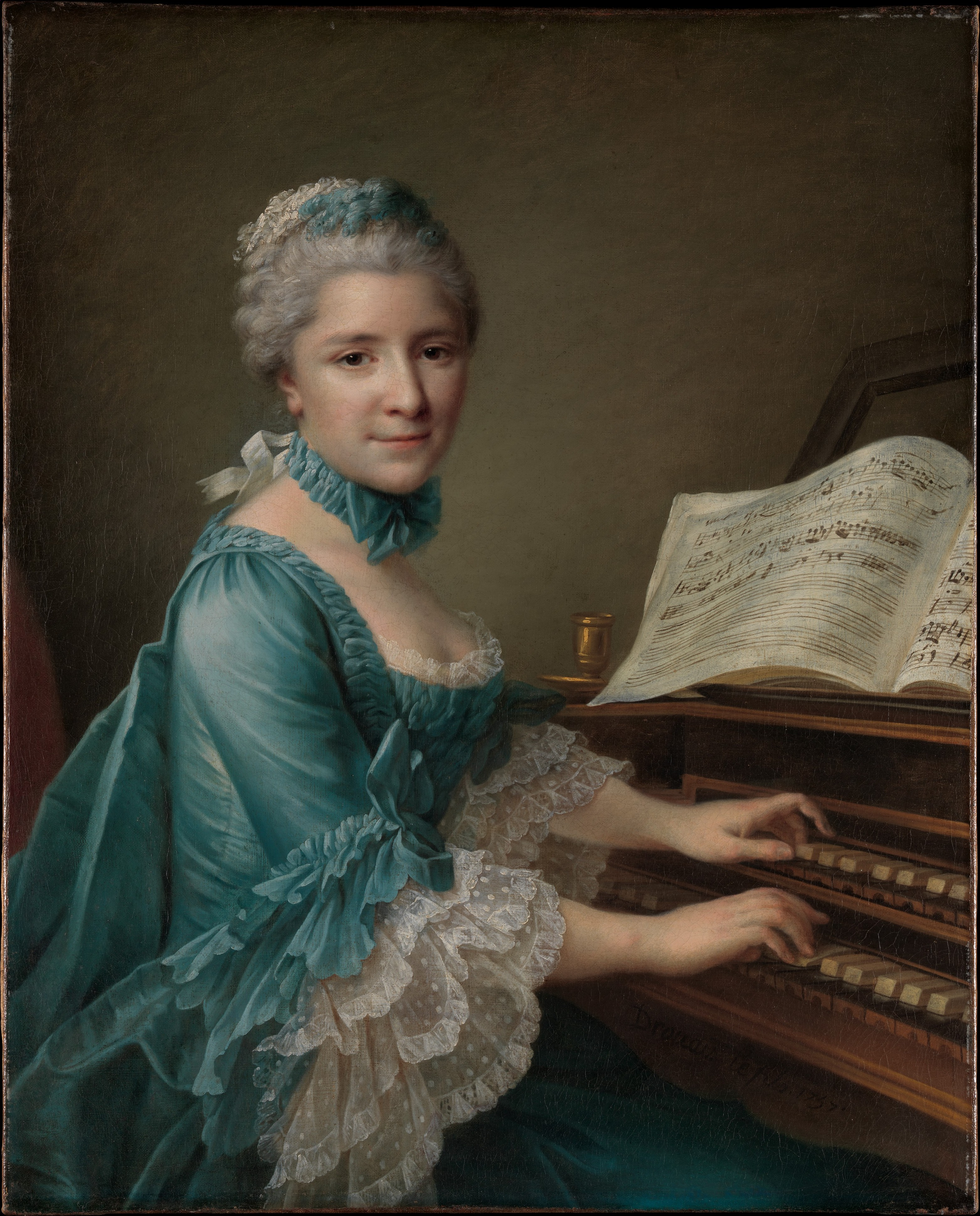 Portrait of Justine Favart by French painter François-Hubert Drouais